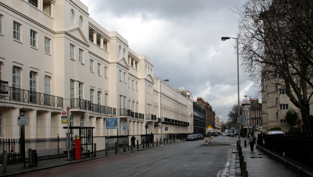 Albany Street, London. Looking north.